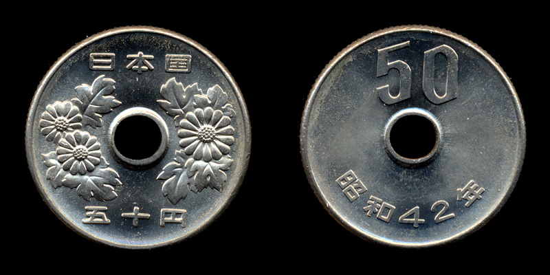 50 yen coin, S42